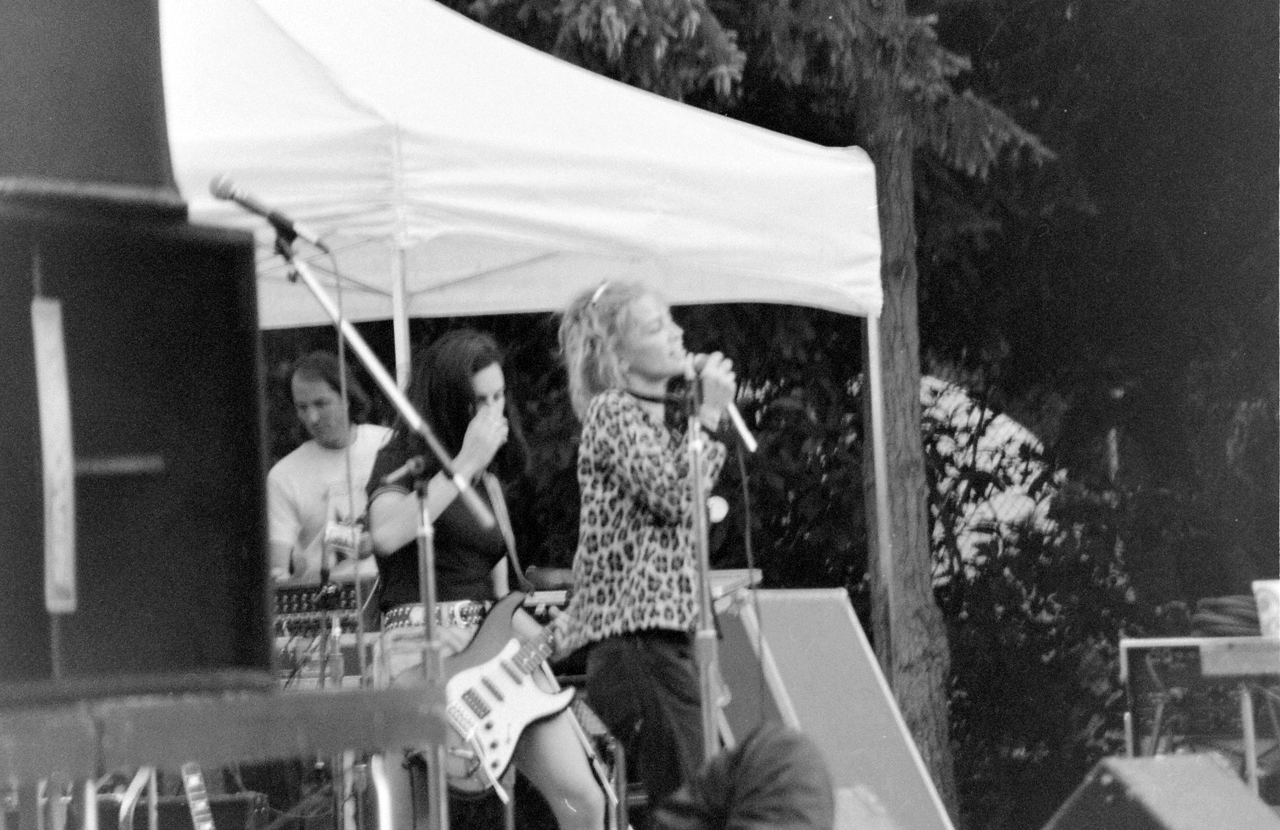 7 Year Bitch performing in the Pain in the Grass series, Mural Amphitheater, Seattle Center, Seattle, Washington, USA. Vocalist is Selene Vigil & guitarist Roisin Dunne.